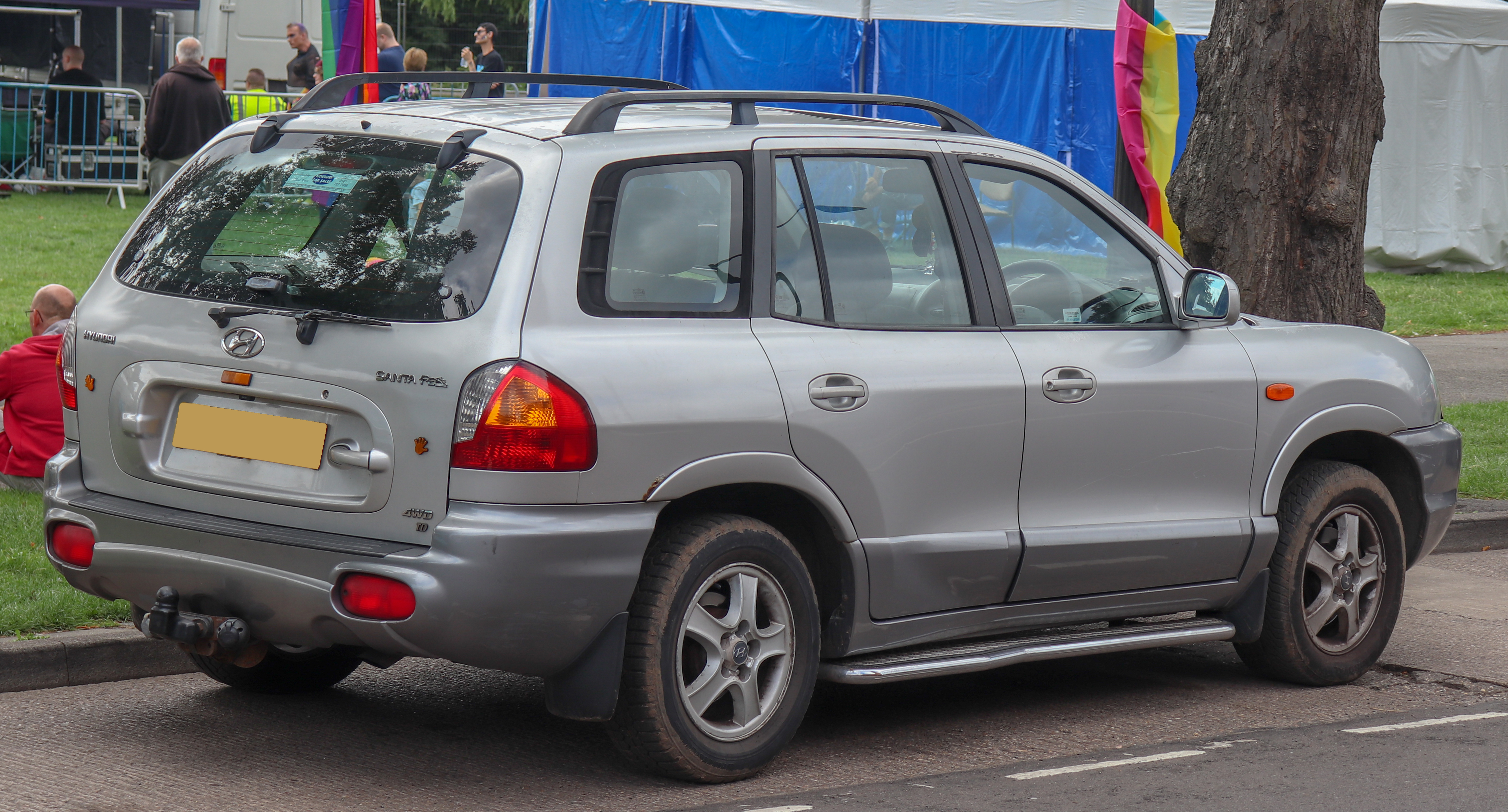 2001 Hyundai Santa Fe TD 2.0 Rear Taken in Leamington Spa